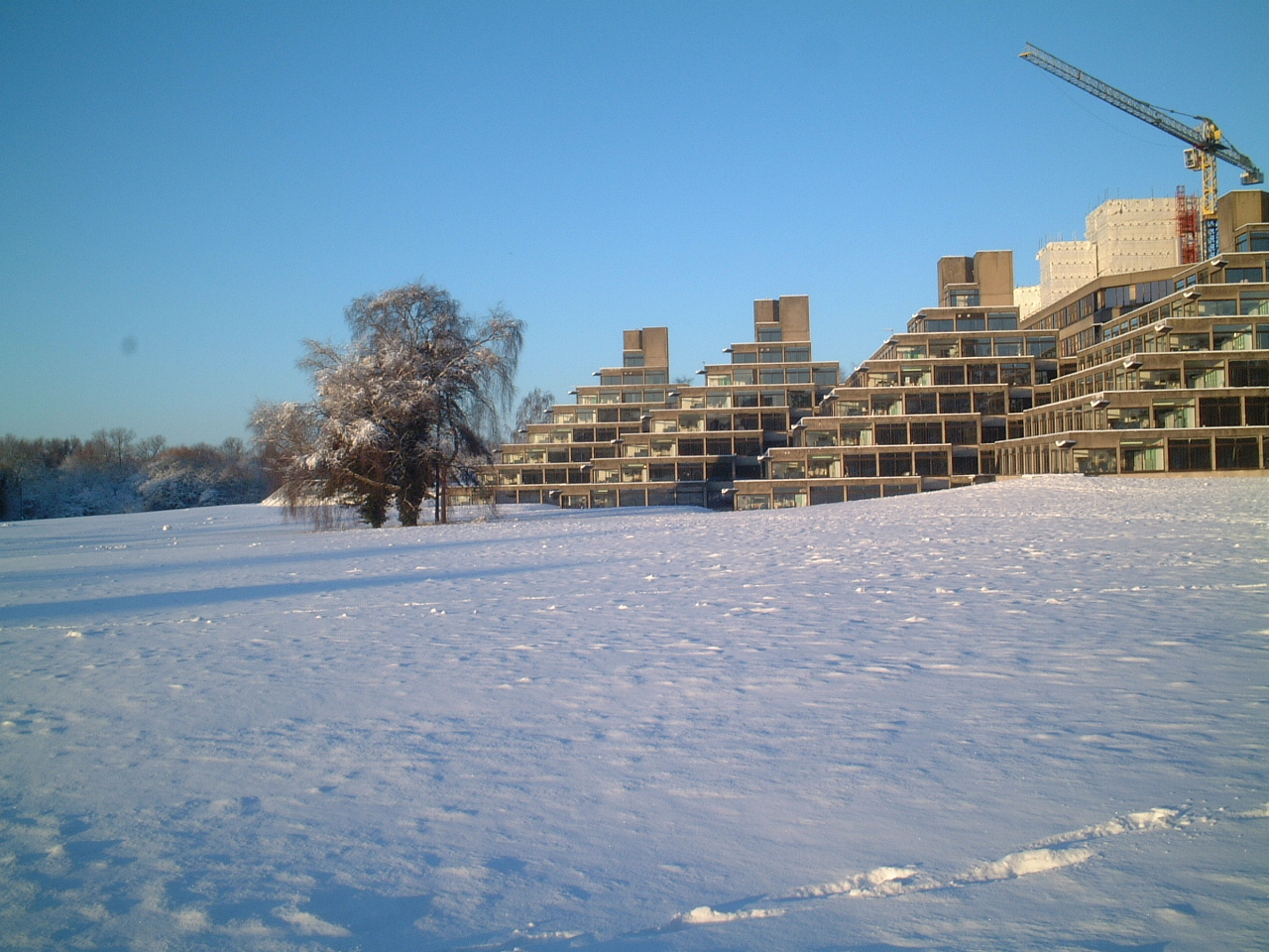 The Norfolk Terrace halls of residence at the University of East Anglia in the show. Photo taken on a FujiFilm Finepix 40i digital camera by Paul Hayes in January 2004, and uploaded to Wikimedia by same.